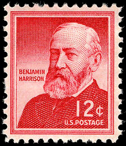 US Postage stamp: Benjamin Harrison, Issue of 1959, 12c